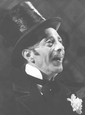 Willy Godik (Wladyslaw Godik), actor in Russia, Vienna, Poland, and America